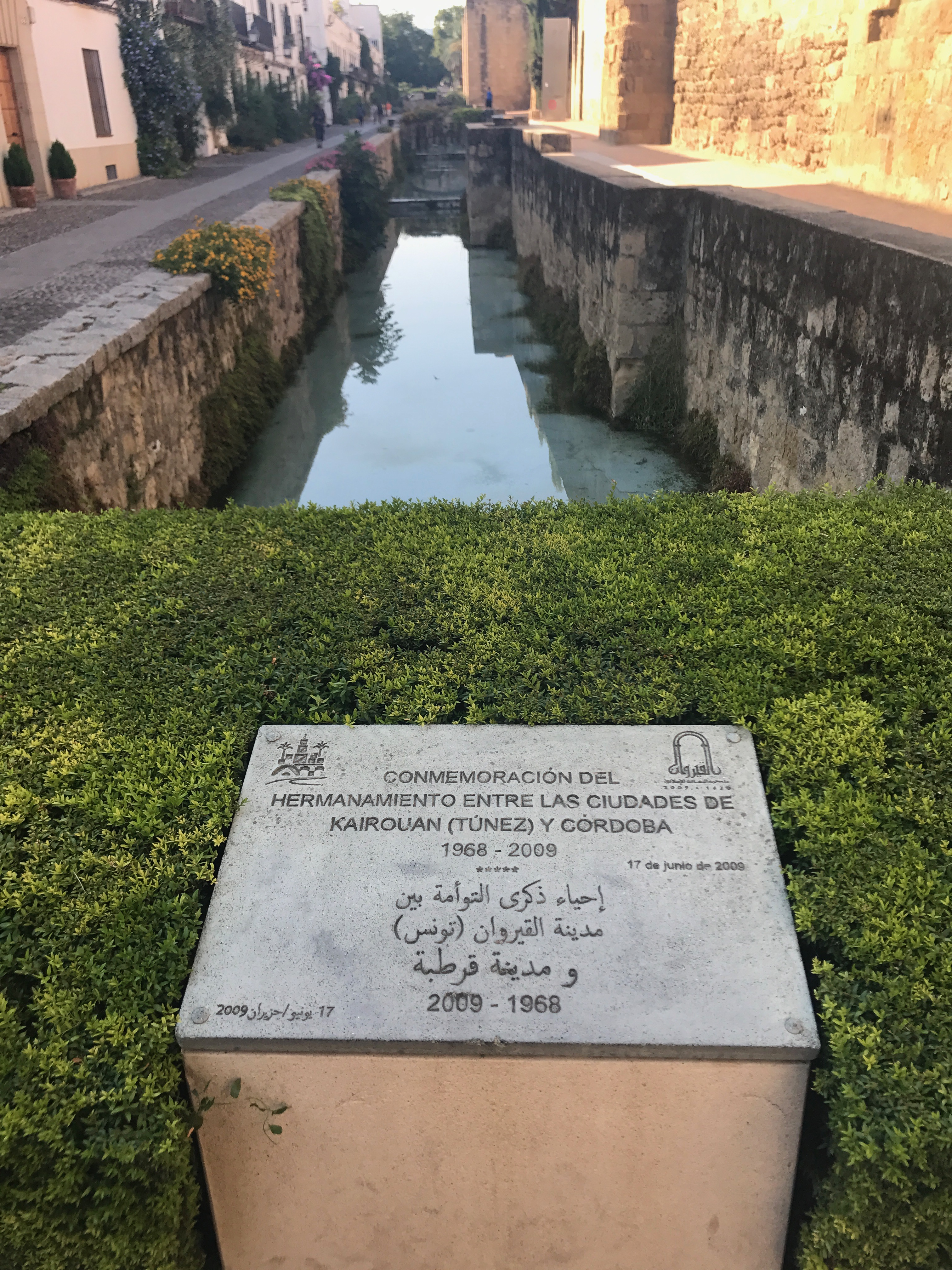 Commemoration of the twinning between Kairouan and Córdoba.